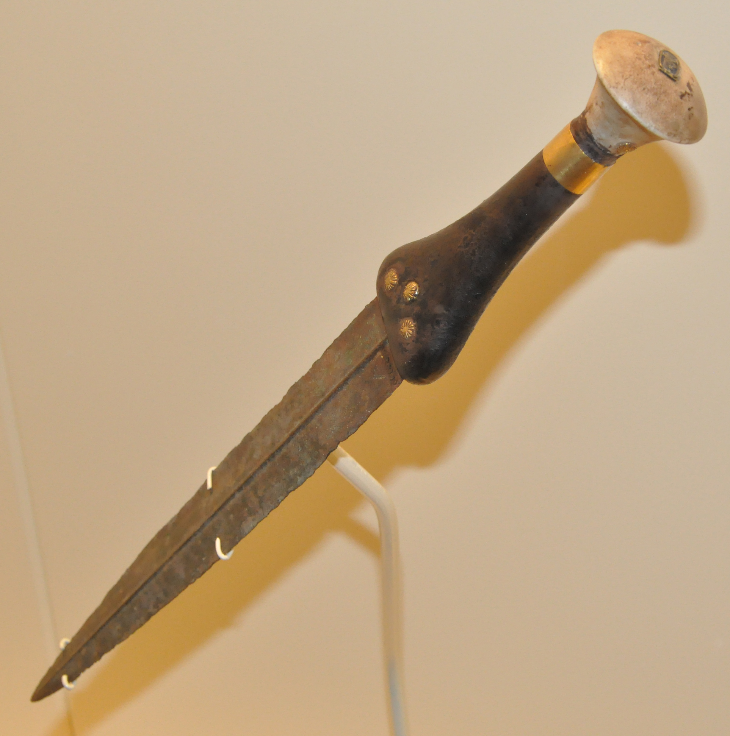 1560 BC, Ancient Egypt. Royal Ontario Museum, Toronto